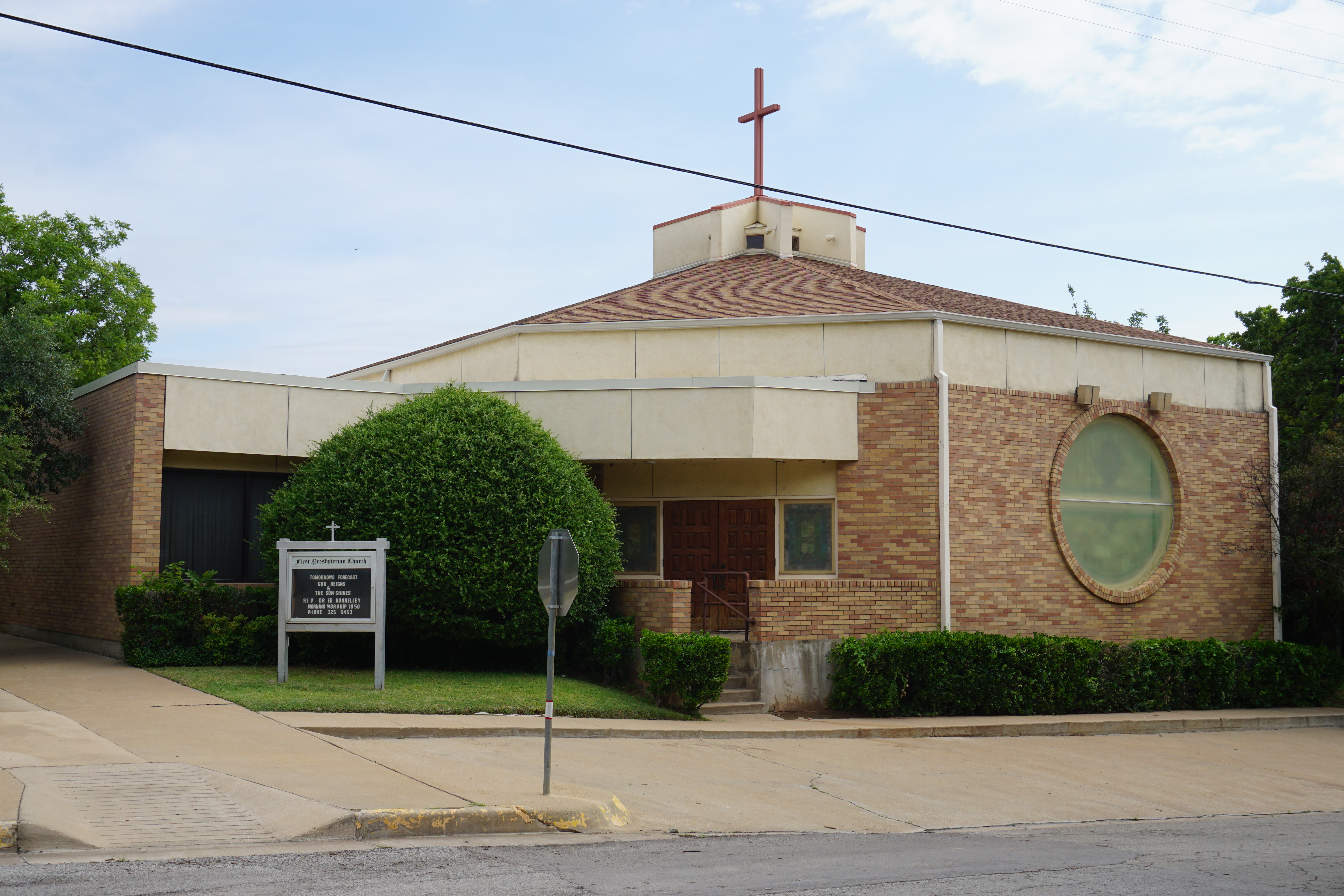 First Presbyterian Church in Mineral Wells, Texas (United States).